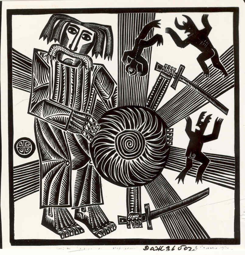 linotype, 1990